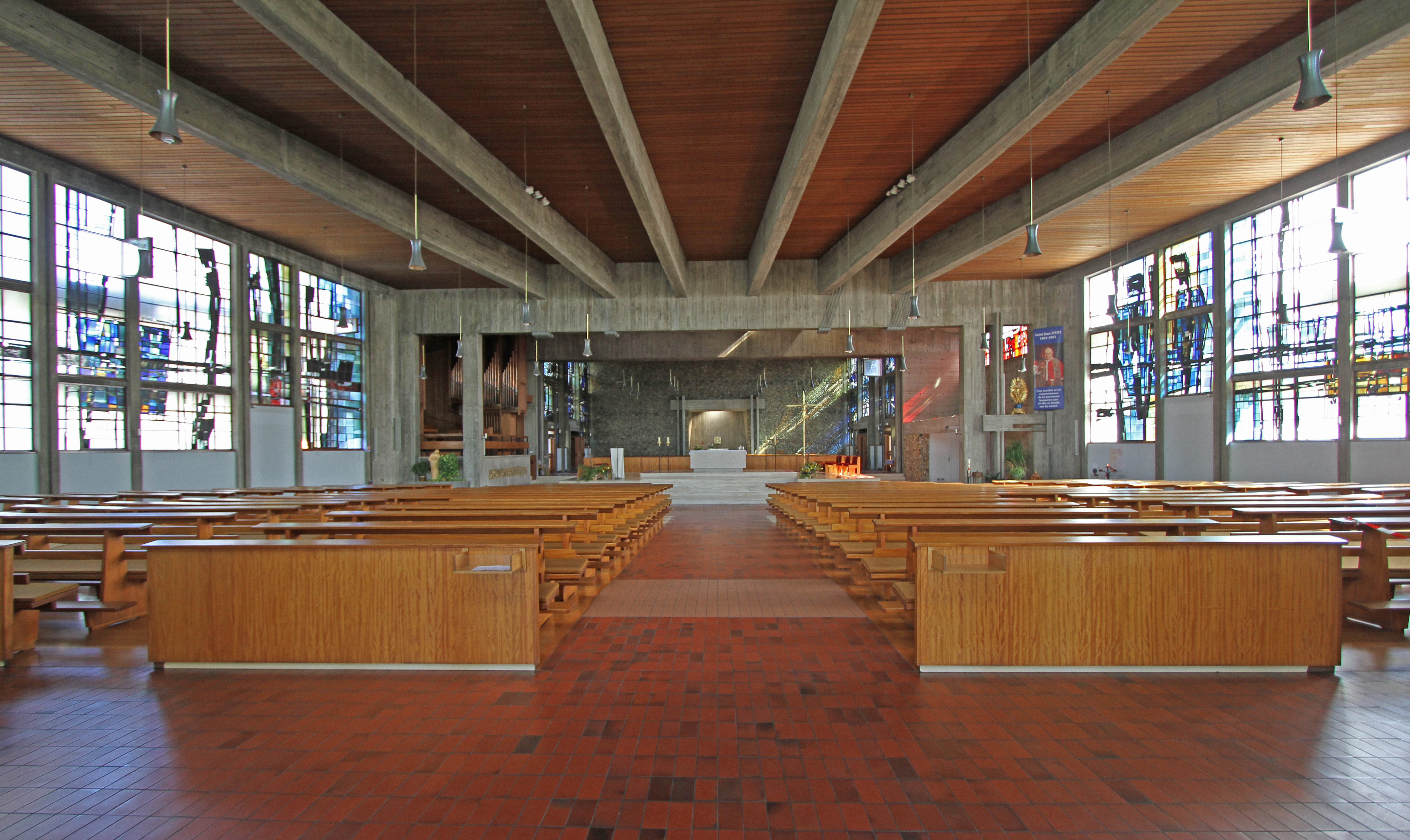 Church of St. Arbogast in Herrlisheim, interior decoration.